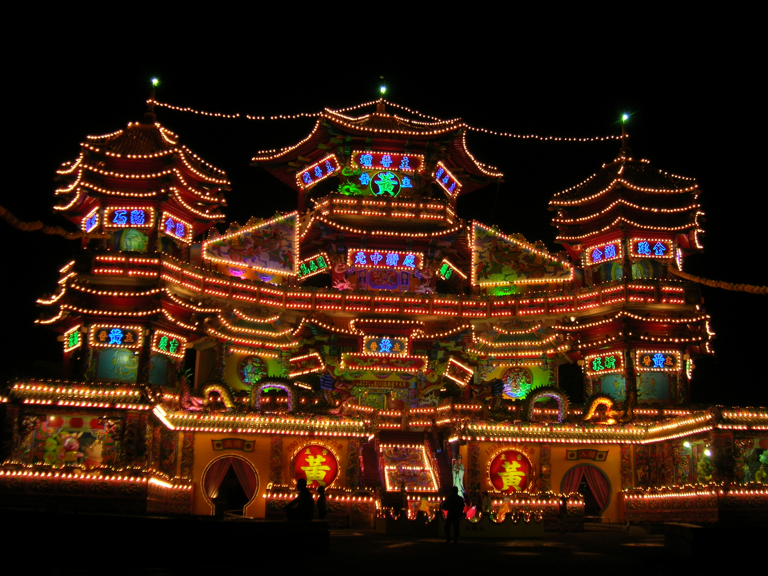 Keelung Mid-Summer Ghost Festival 2007, Keelung, Taiwan.